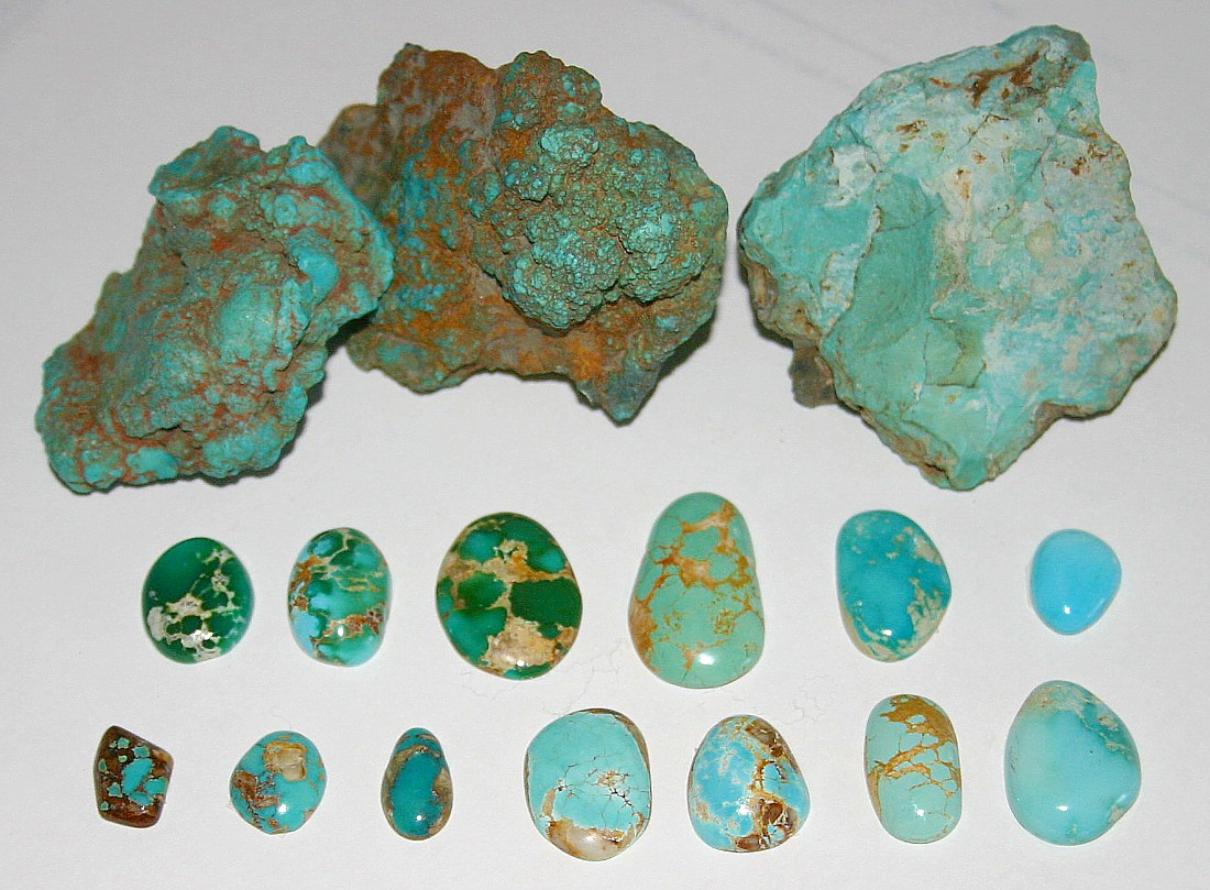 Source: Chris Ralph. This photo taken by Chris Ralph of Photographer and author: photo taken of turquoise owned by author.